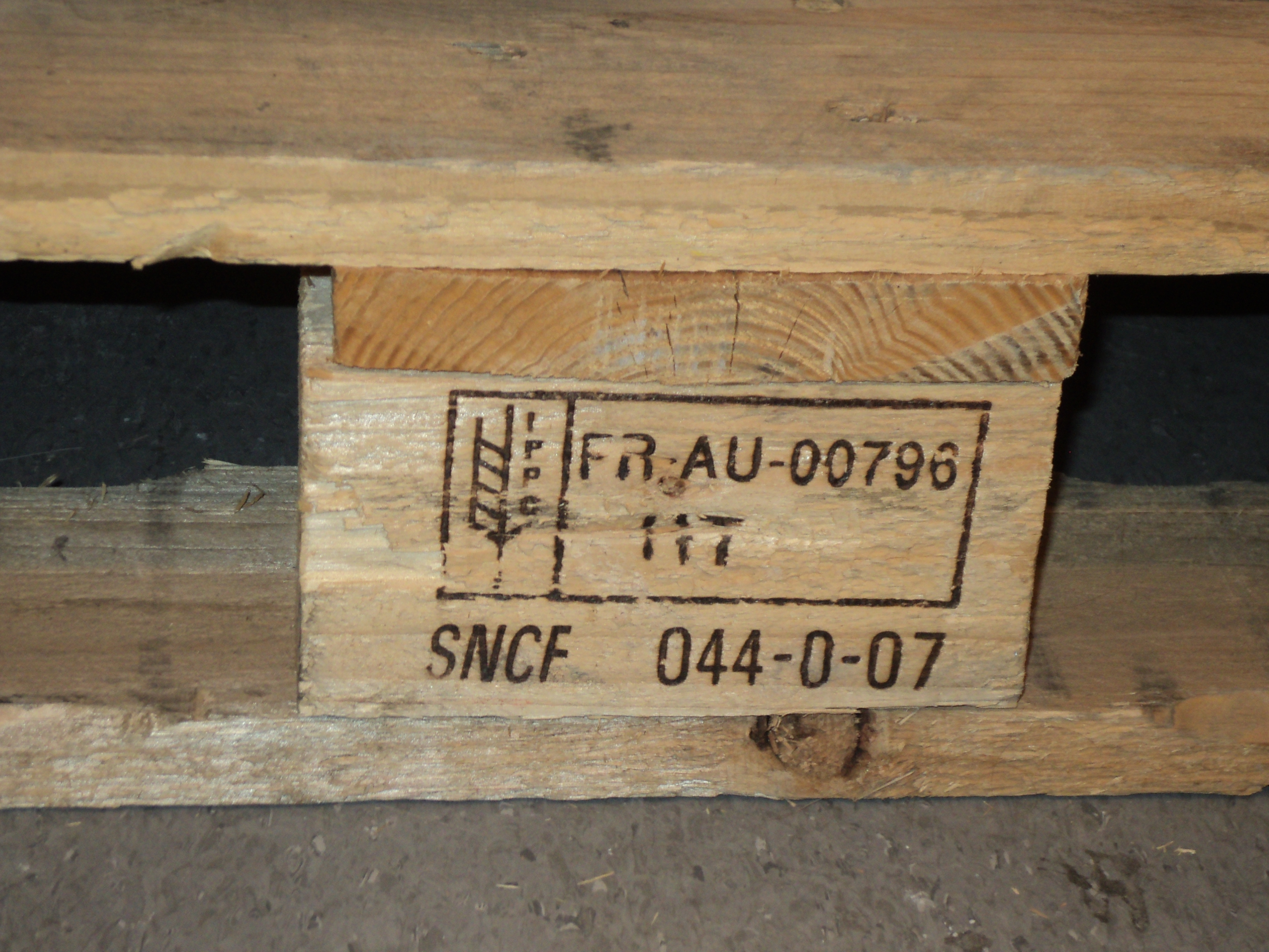 Taken at IKEA, obviously to ship goods from Europe.